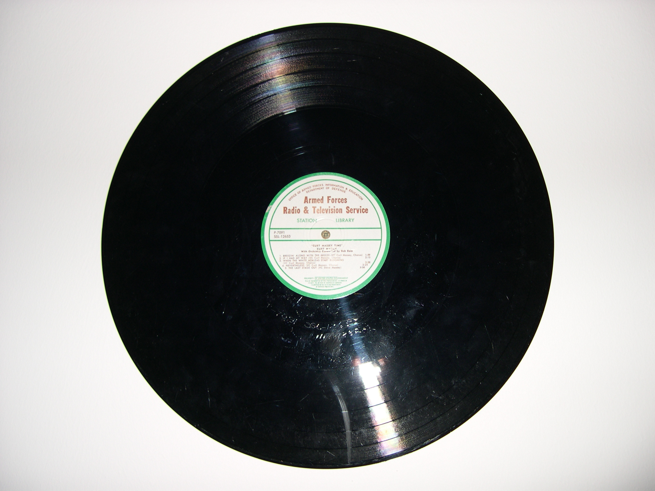 AFN Record for Stations around the world, diameter 40 cm